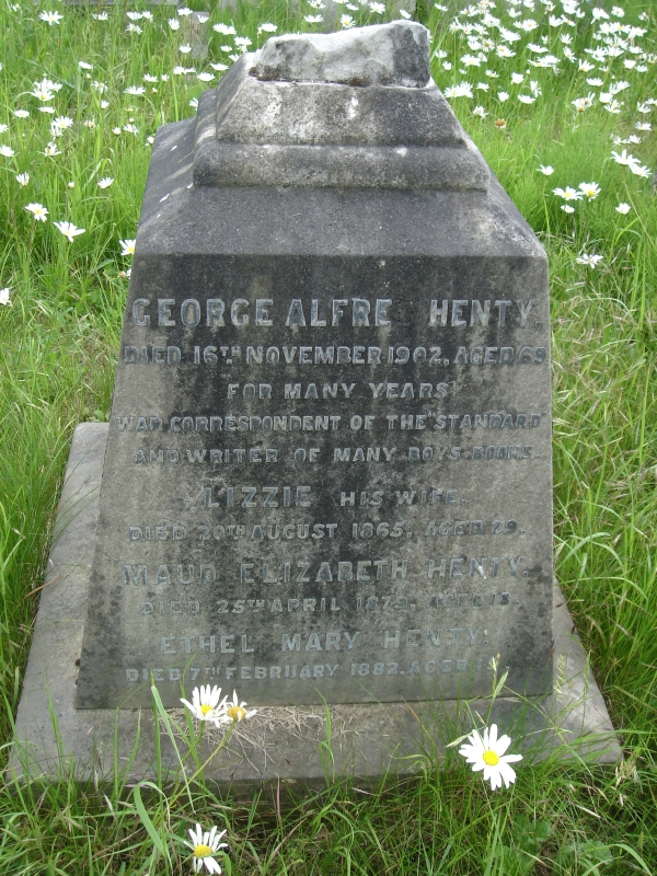 Funerary monument, Brompton Cemetery, London A photo that I have taken.